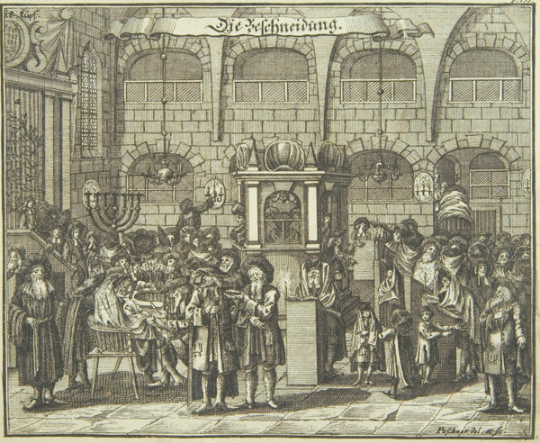 Illustration from Juedisches Ceremoniel, a German book published in Nürnberg in 1724 by Peter Conrad Monath. The book is a beautifully illustrated description of Jewish religious ceremonies, rites of passage and feast days, which first appeared in 1716, here in its second edition of 1724. The extremely detailed plates, by Georg Puschner, depict priestly robes, the celebrations of the New Year, Passover, the weekly Sabbath, circumcision, presentation of the first born, prayer at the synagogue, a wedding procession and a wedding, purification of the bride, the washing of the brother-in-law's feet, the feast of reconciliation, death rites, burials, as well as the procedures for other Jewish customs.